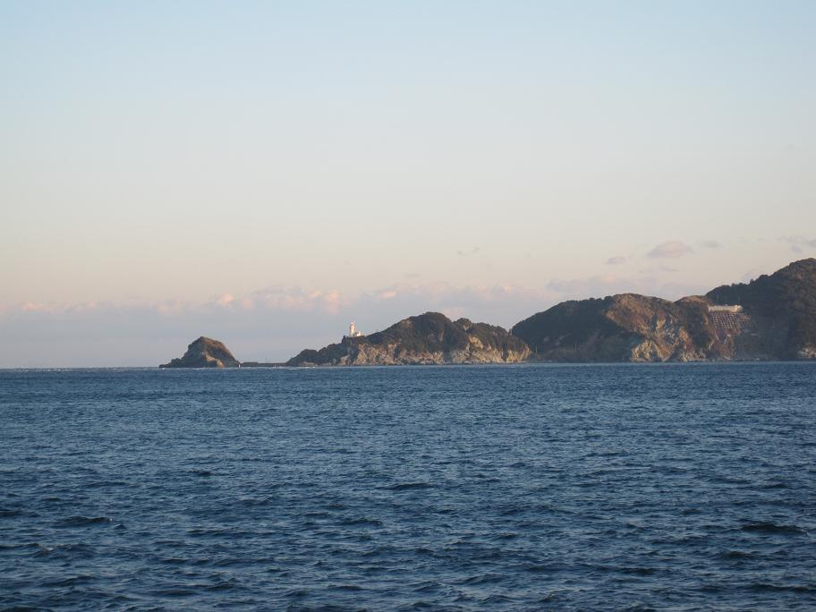 The view of the Sadamisaki Peninsula from the Bungo Channel